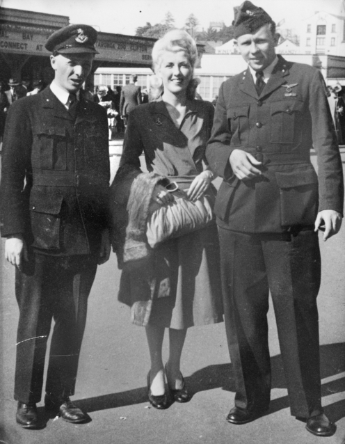 Group portrait of three people standing in front of an unknown ferry terminal (possibly Manly). Text on portal in background: "A??onica Clifton", so the location is probably near Manly, New South Wales, Australia. Identified persons from left to right: Lennard Dal, 18 Squadron, Netherlands East Indies (NEI), RAAF (Royal Australian Air Force); Jean Agnew; and Gus Winckel, 18 Squadron, Netherlands East Indies (NEI), RAAF.